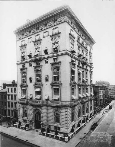 Looking northwest across Clinton and Pierrepont Streets at Crescent Athletic Club House, c. 1910.